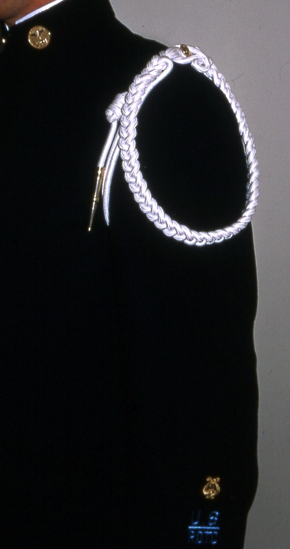 White Citation Cord of the Virginia Tech Regimnental Band, the Highty-Tighties. Presented to the Highty-Tighties in 1936 by Presdient Burrus of VPI in recognition of their service in the Spanish American War. Photograph taken by Edgar L. Moore in 1966 at VPI.